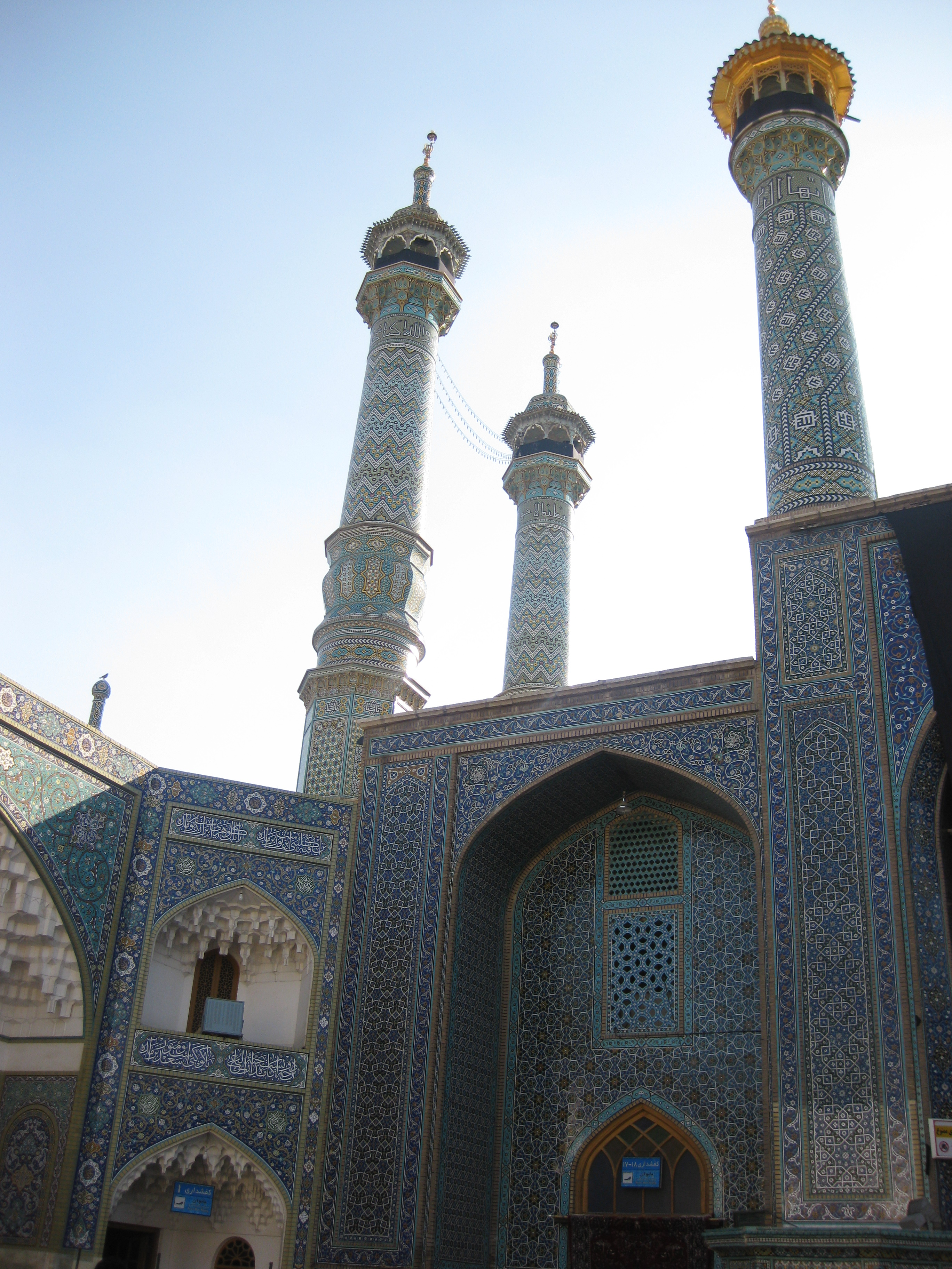 One of the neighboring mosques of Fatimah Ma'sūmah's Shrine, Qom, Iran.